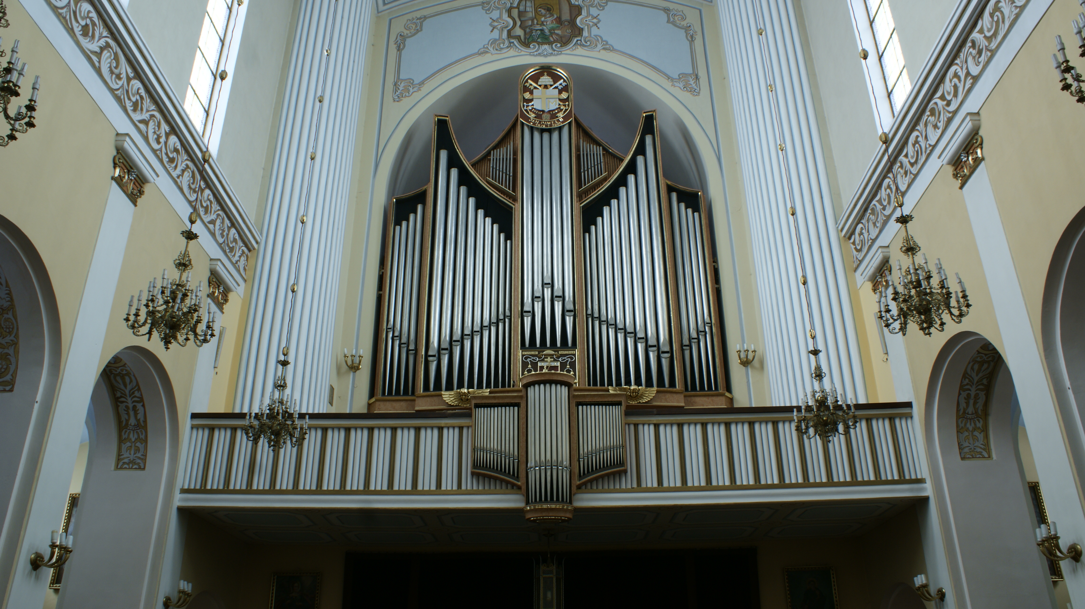 Organ inside the st. Anthony church in Ostrow Wlkp.